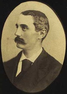 Frederik Vilhelm Treschow (1842-1876), Danish estate owner